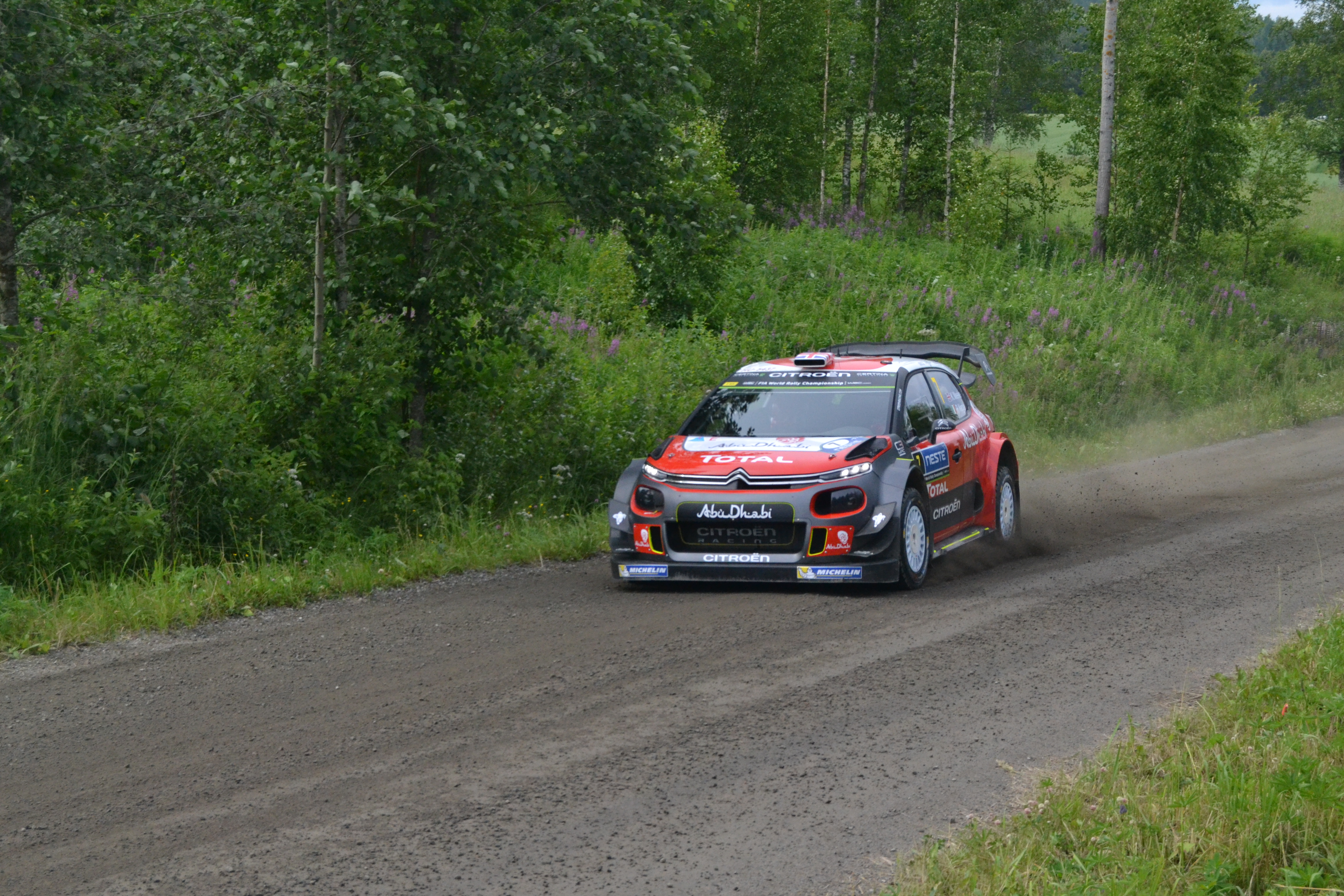 Kris Meeke at second Saalahti stage at Rally Finland 2017